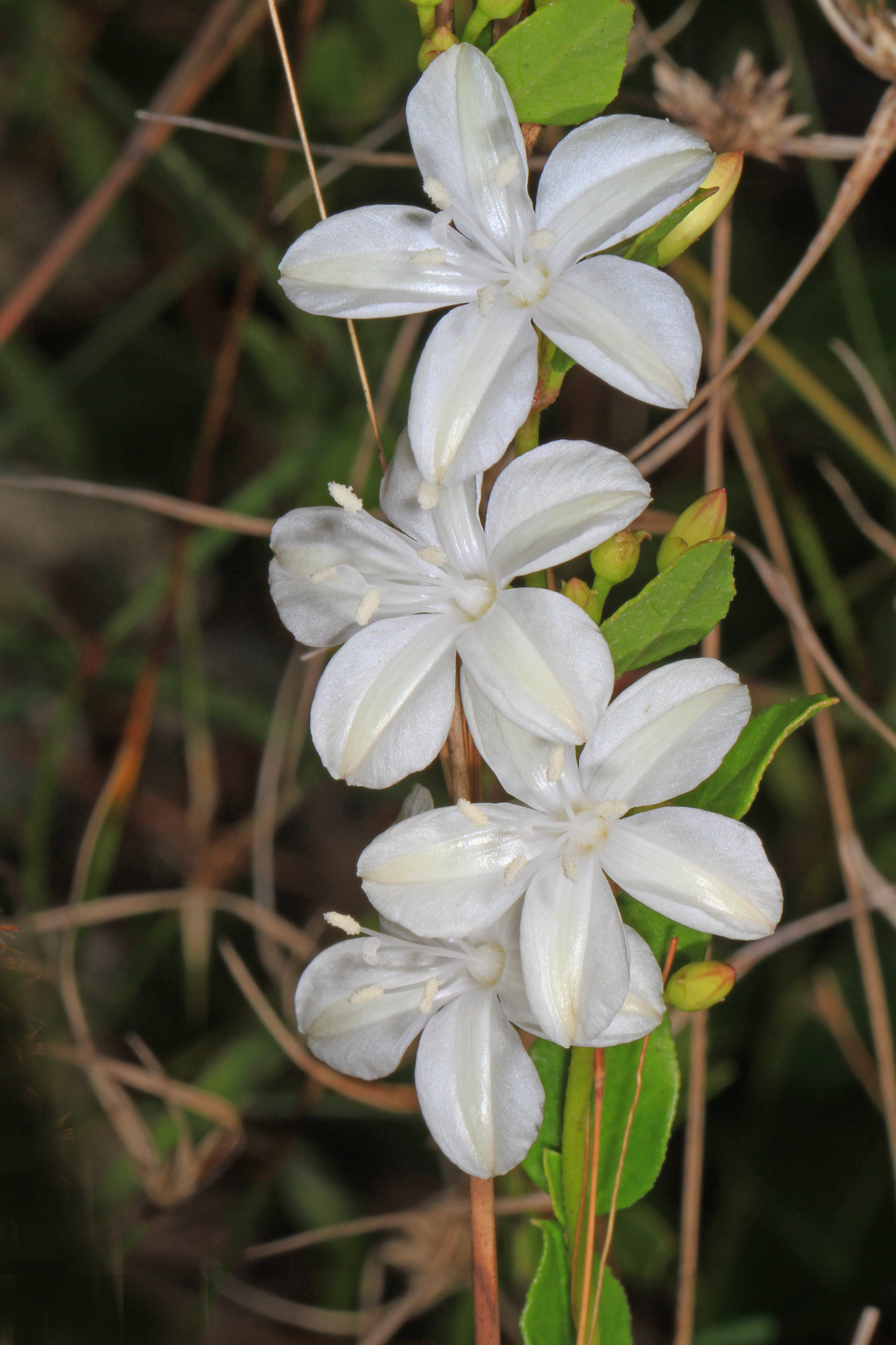 Pineland Jacquemontia - Jacquemontia curtisii, Long Pine Key, Everglades National Park, Homestead, Florida